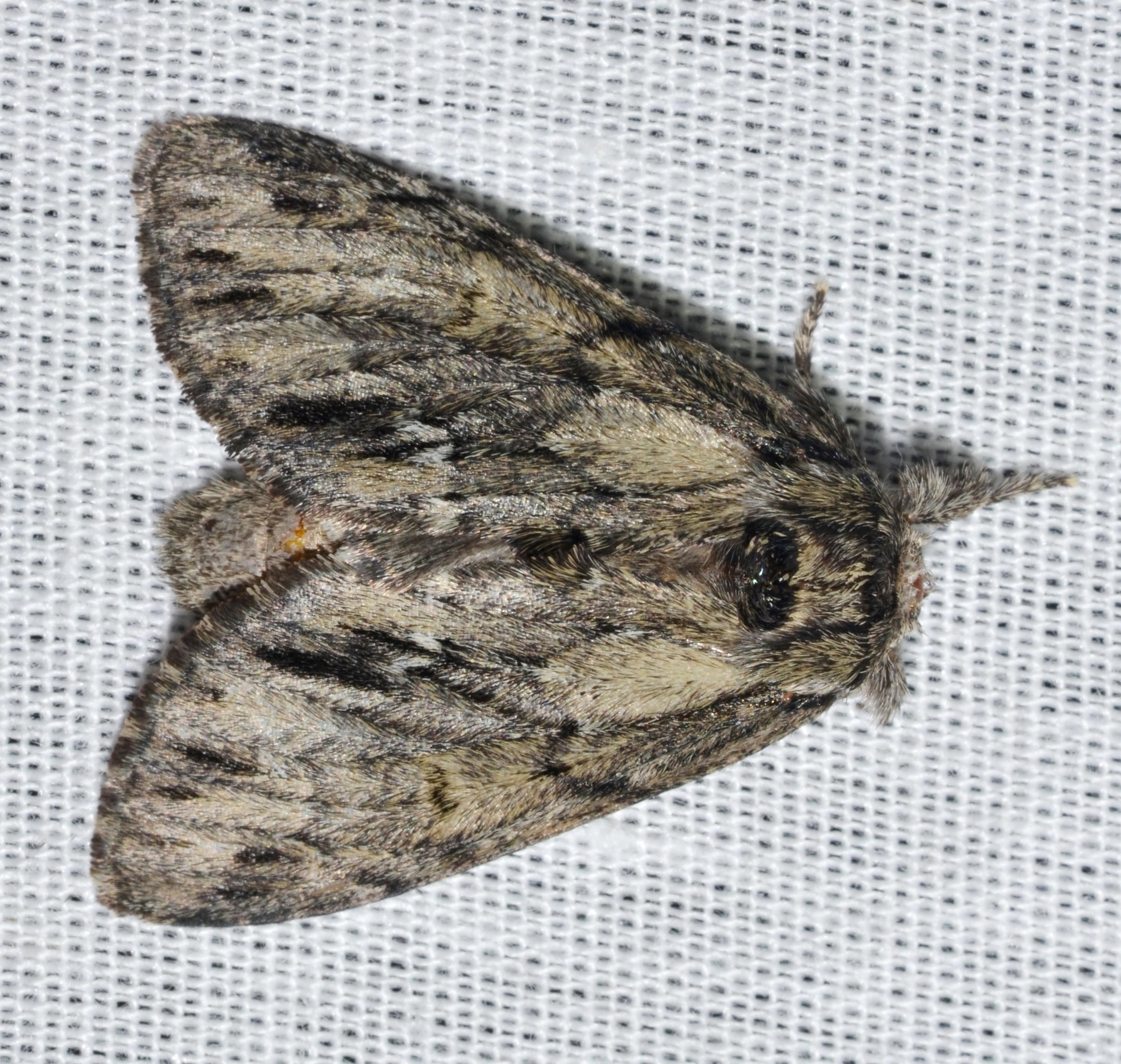 Cuivre River State Park 7/4/15 - 7/5/15